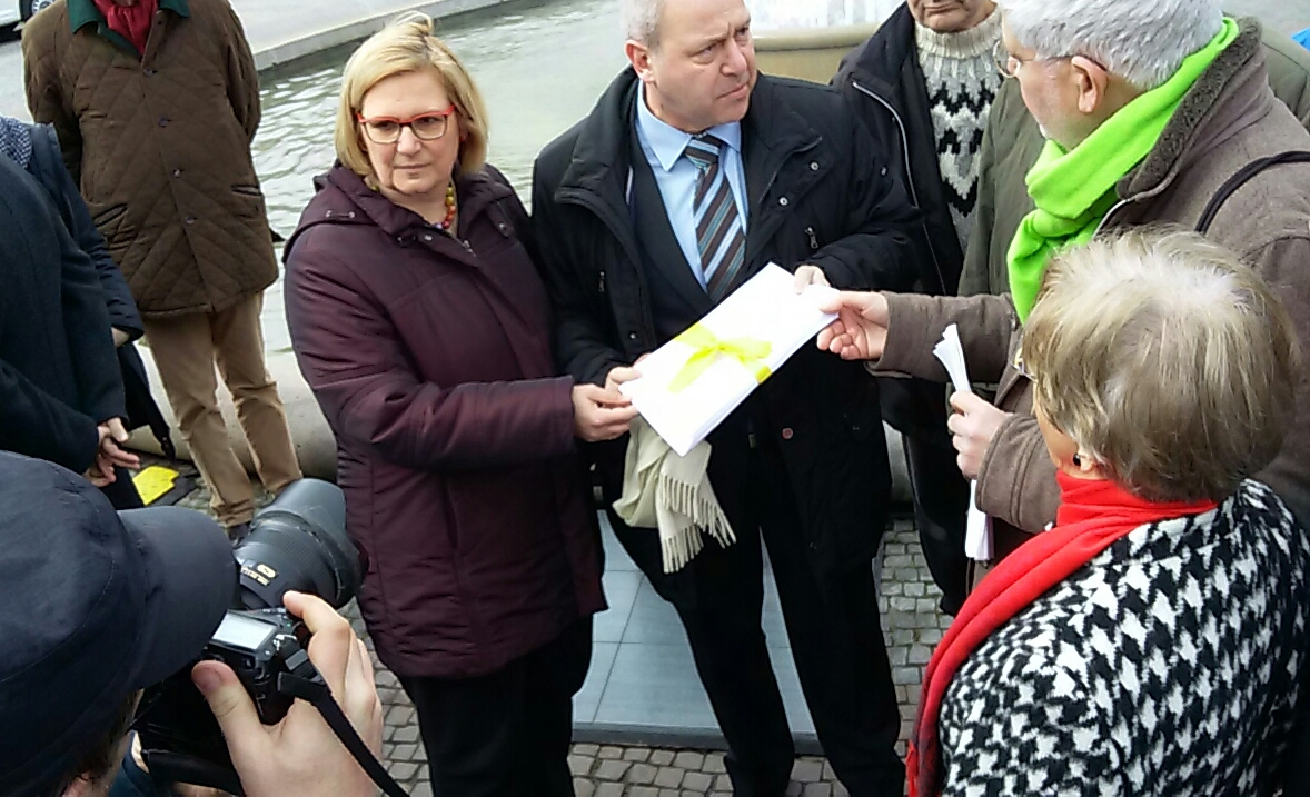 Viktoria Luise Square in Berlin. 2,600 protest signatures handed over to district mayor.